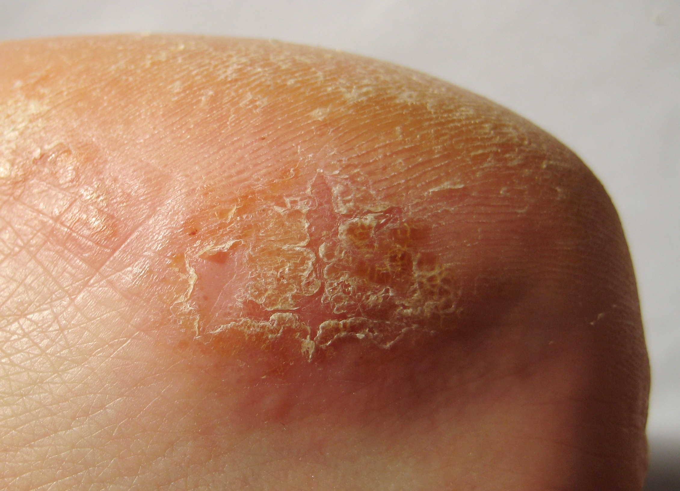 Allergic contact dermatitis on human foot